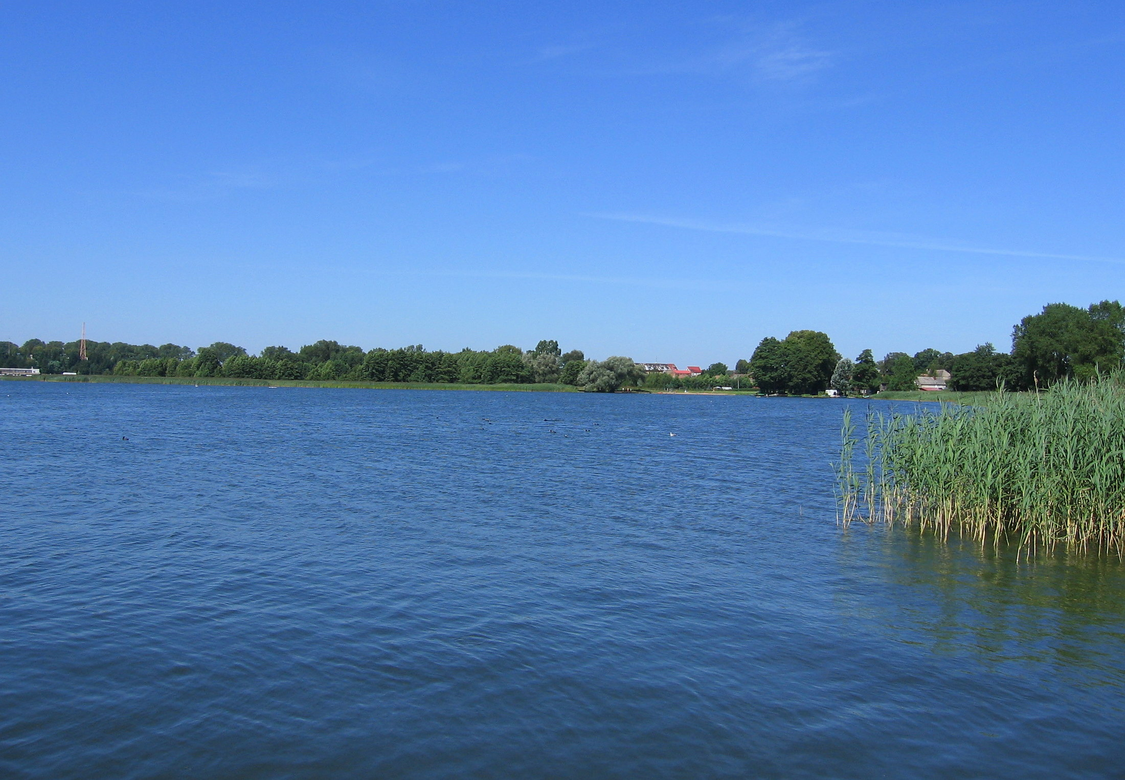 the Lubie lake offshore Gudowo village, Poland, West Pomeranian Voivodship, Drawsko Pomorskie County